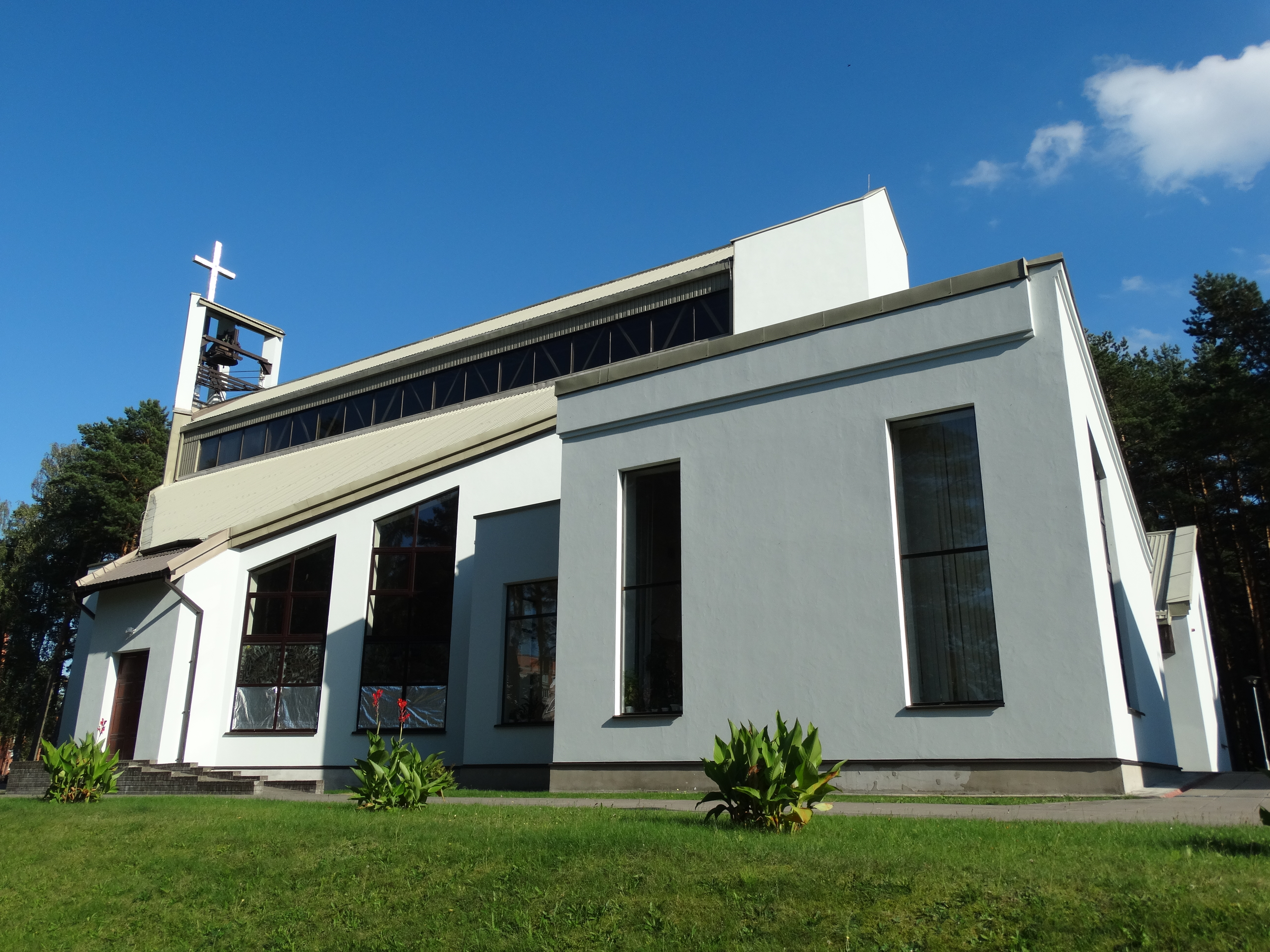 Saint Paul church in Visaginas, Lithuania